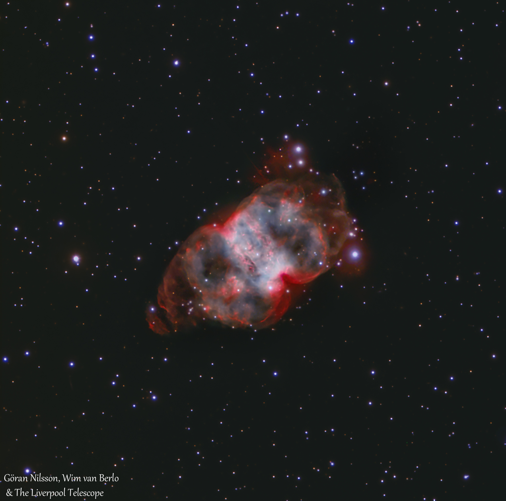 HaRGB image of The Little Dumbbell Nebula (M76). Data from the Liverpool Telescope (a 2 m RC telescope on La Palma) processed by Göran Nilsson and Wim van Berlo. 150 exposures totalling 4.2 hours